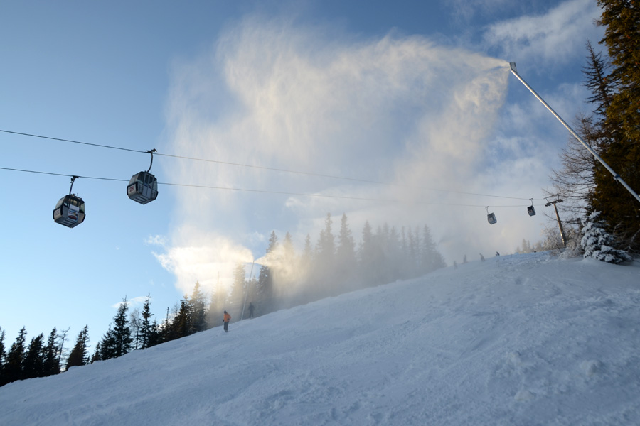 Ski slope "General" in Tatranska Lomnica, Slovakia